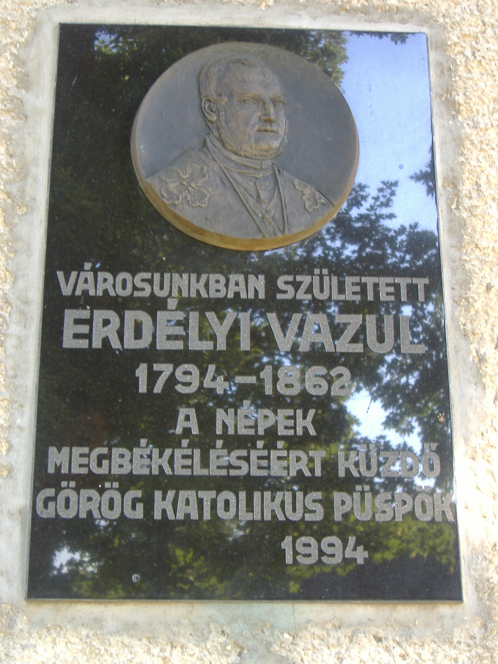 Plaque of Vazul Erdélyi, Greek Orthodox Bishop of Nagyvárad (Oradea) in Makó, Hungary.